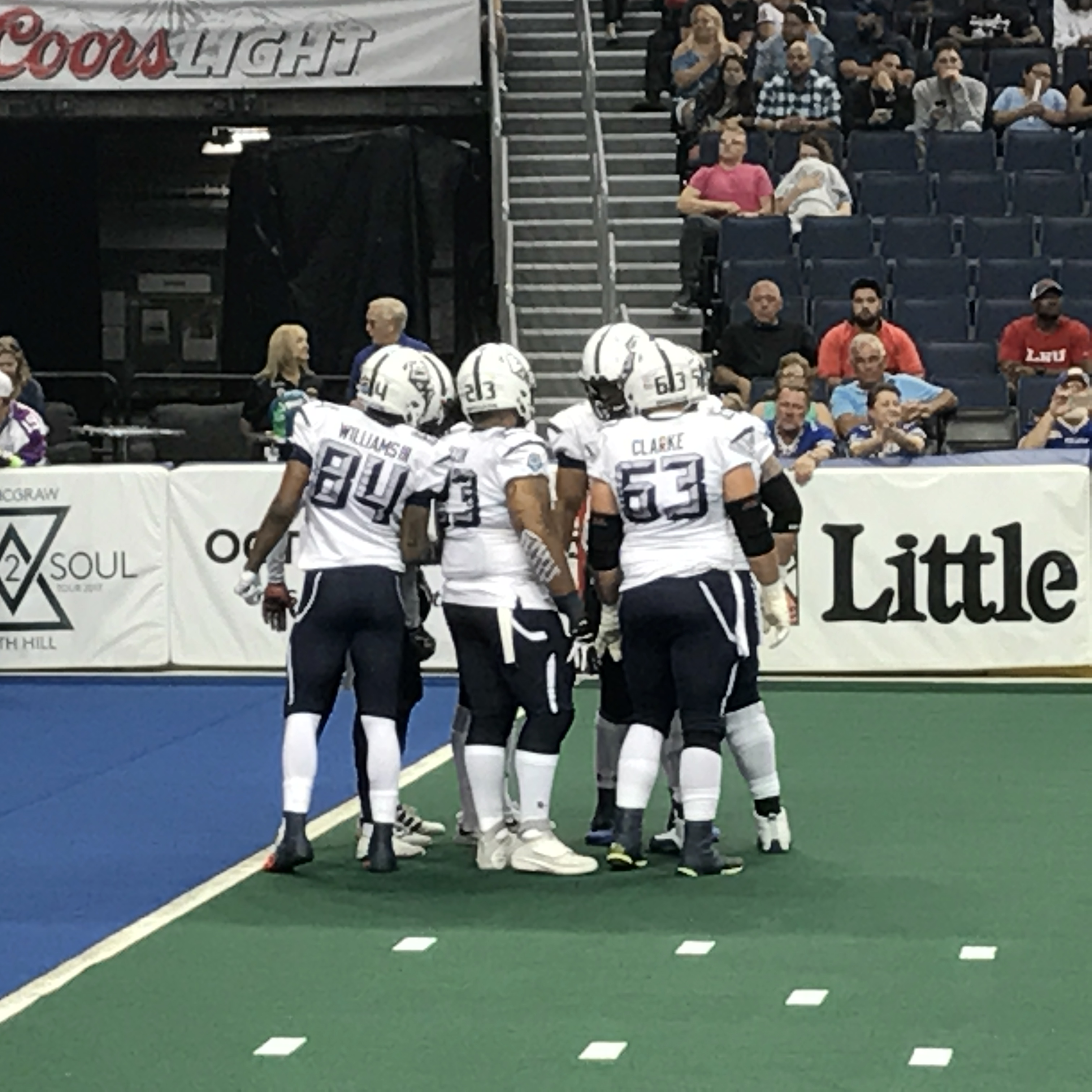 Baltimore Brigade offensive huddle